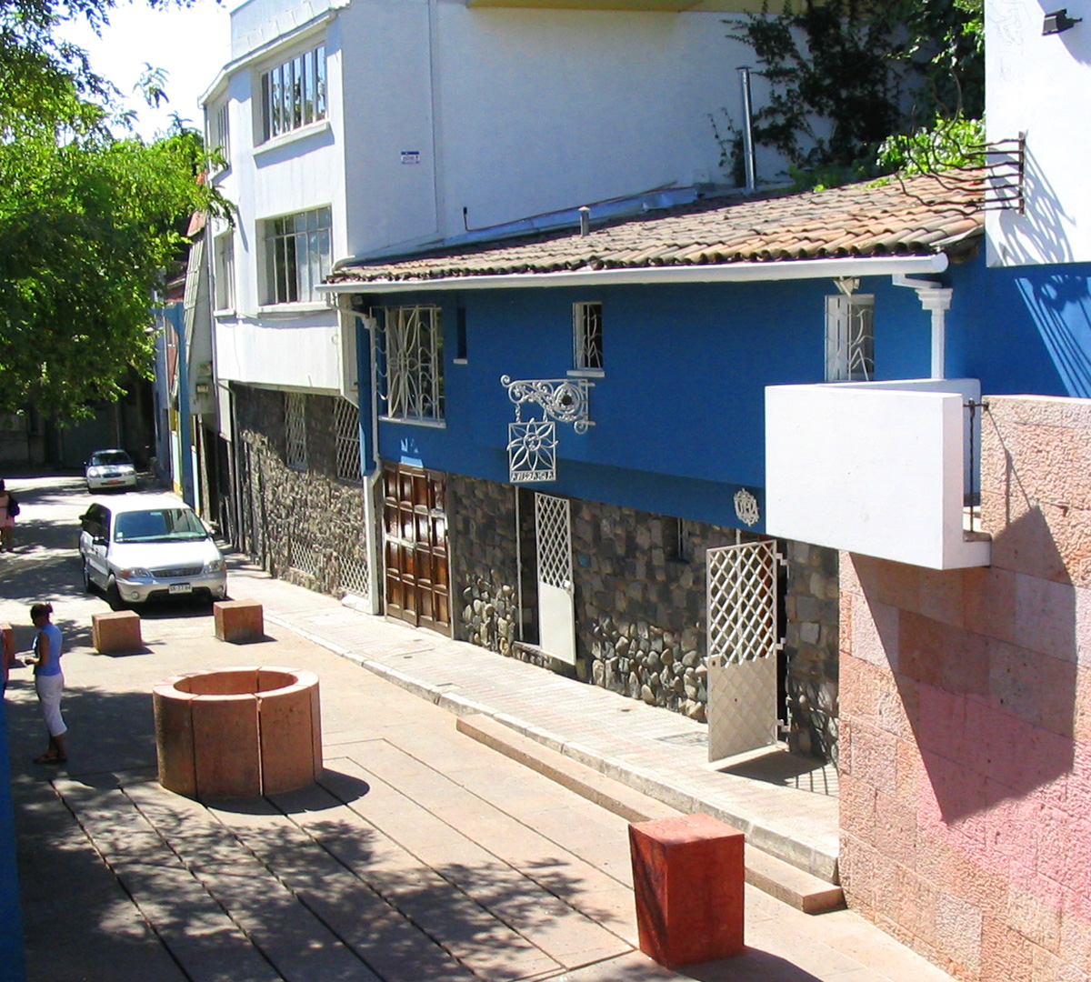 La Chascona, Pablo Neruda's house in Santiago de Chile.